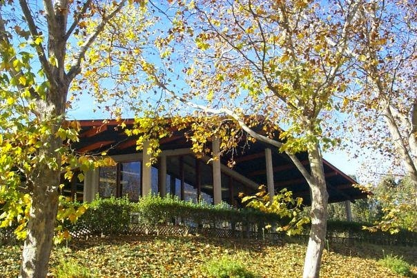 campus student center